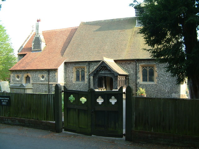 All Saints' Church, Hutton